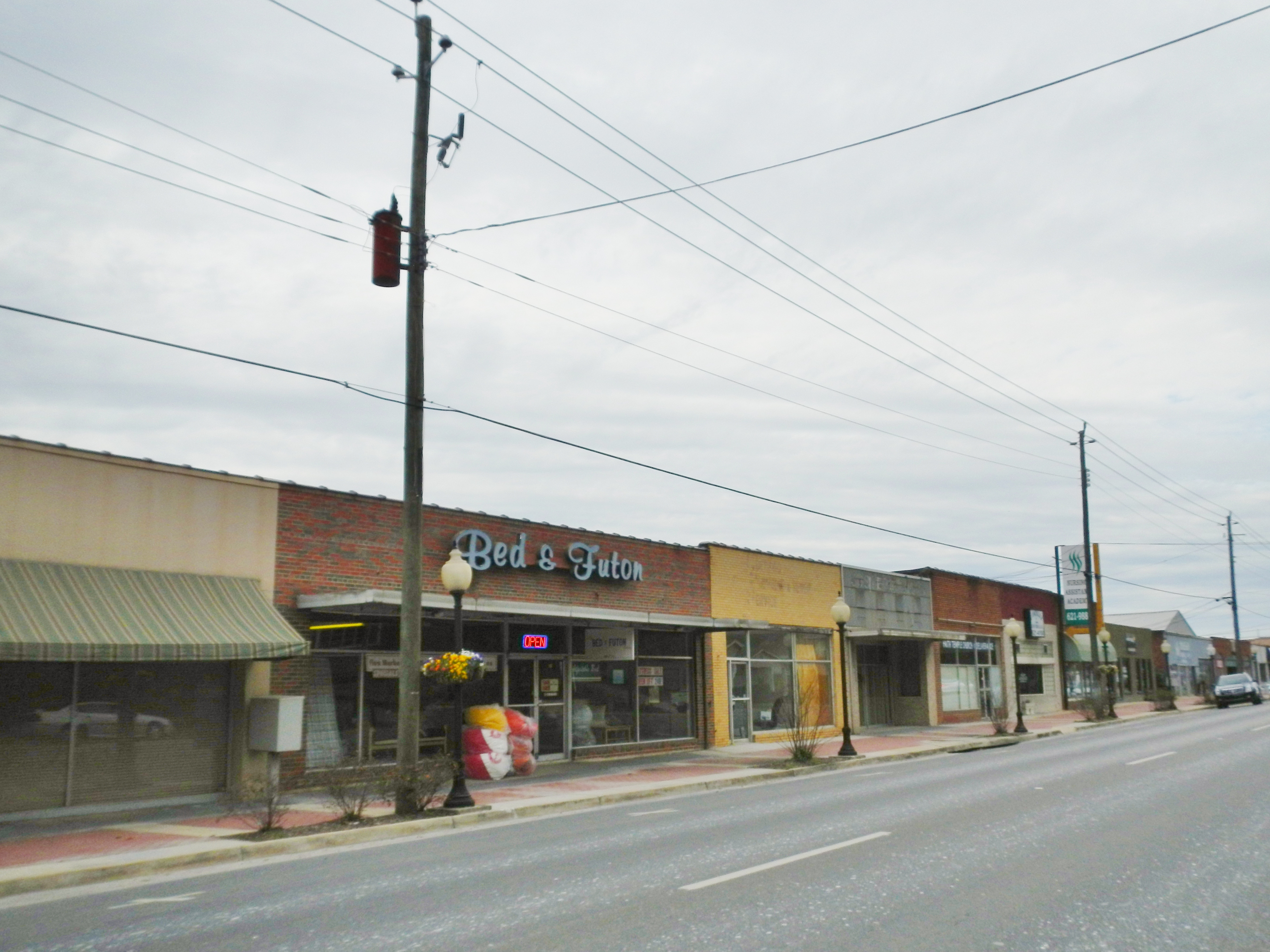 This is a photo of Alabaster, Alabama